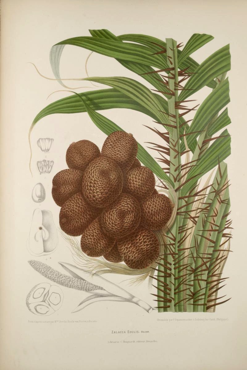 Zalacca edulis Reinw. = Salacca zalacca (Gaertn.) Voss from "Fleurs, Fruits et Feuillages Choisis de l'Ile de Java" [Selected Flowers, Fruit and Foliage from the Island of Java]